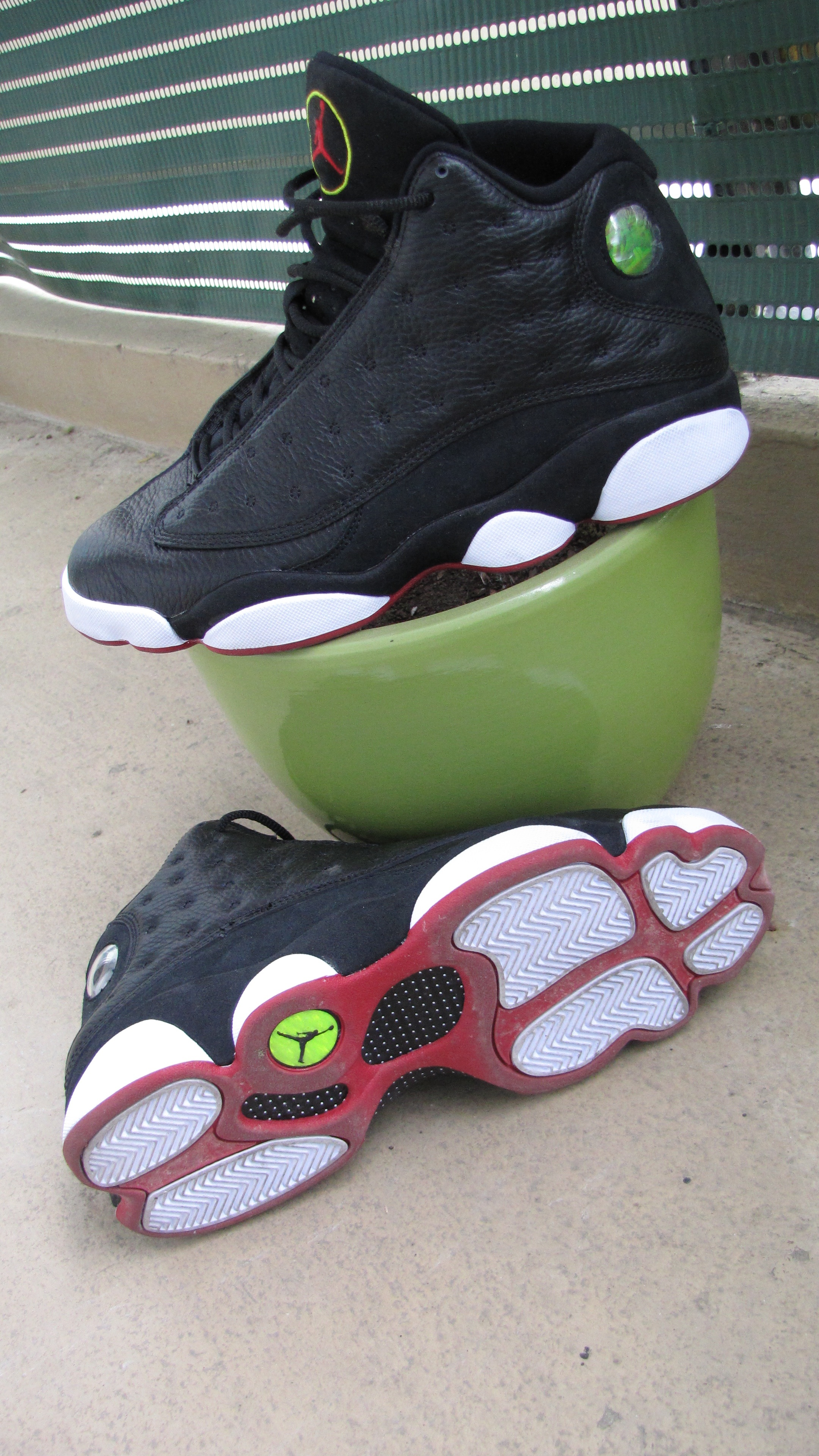 Nike Air Jordan XIII